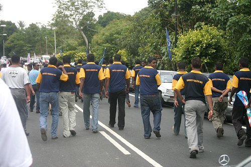 Members of the Malaysian Indian Congress Youth in Machap on nomination day for the Machap by-election, 2007.